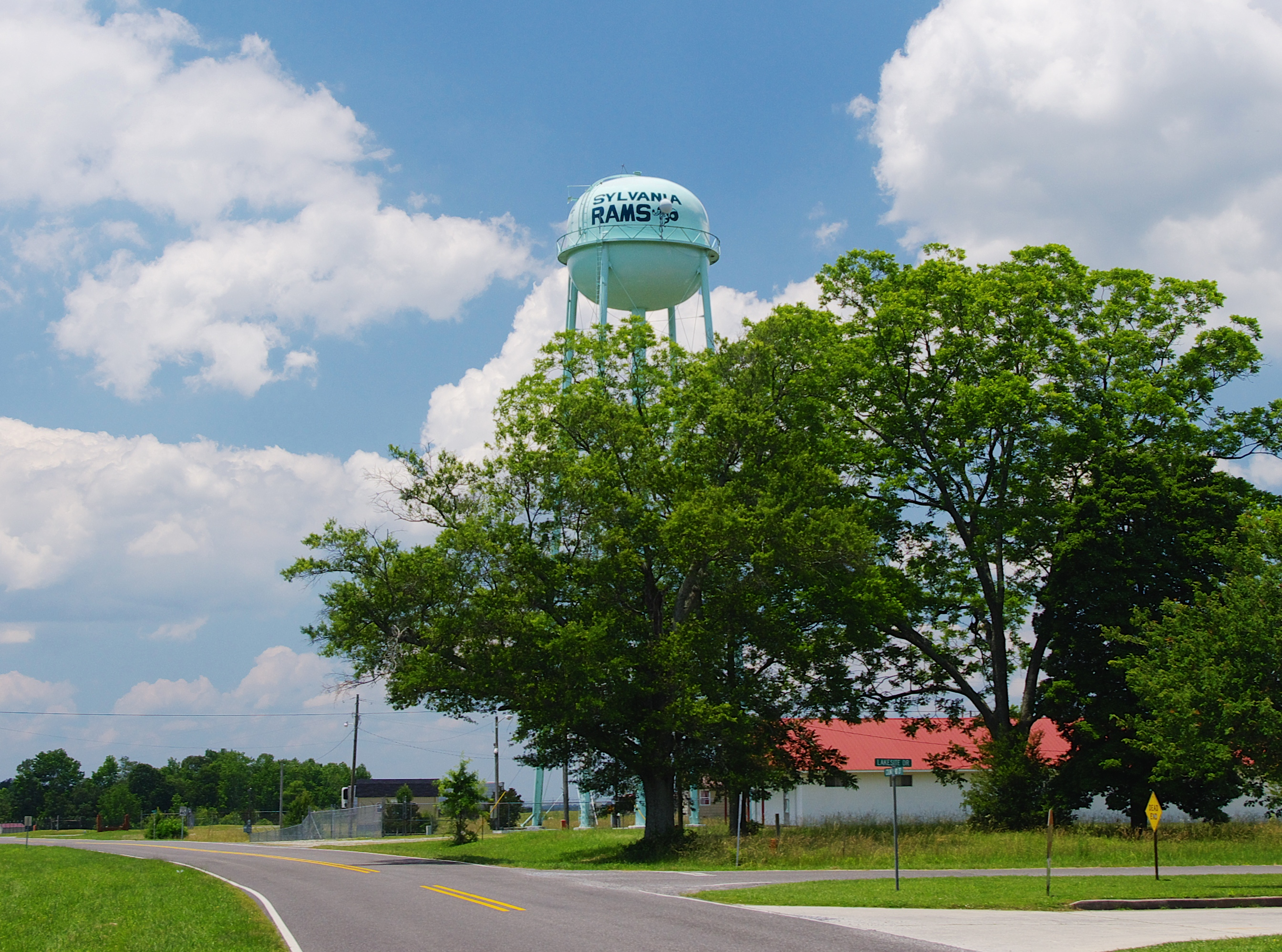 Water tower in Sylvania, Alabama, United States. Blue Pond Boulevard is on the lower left.